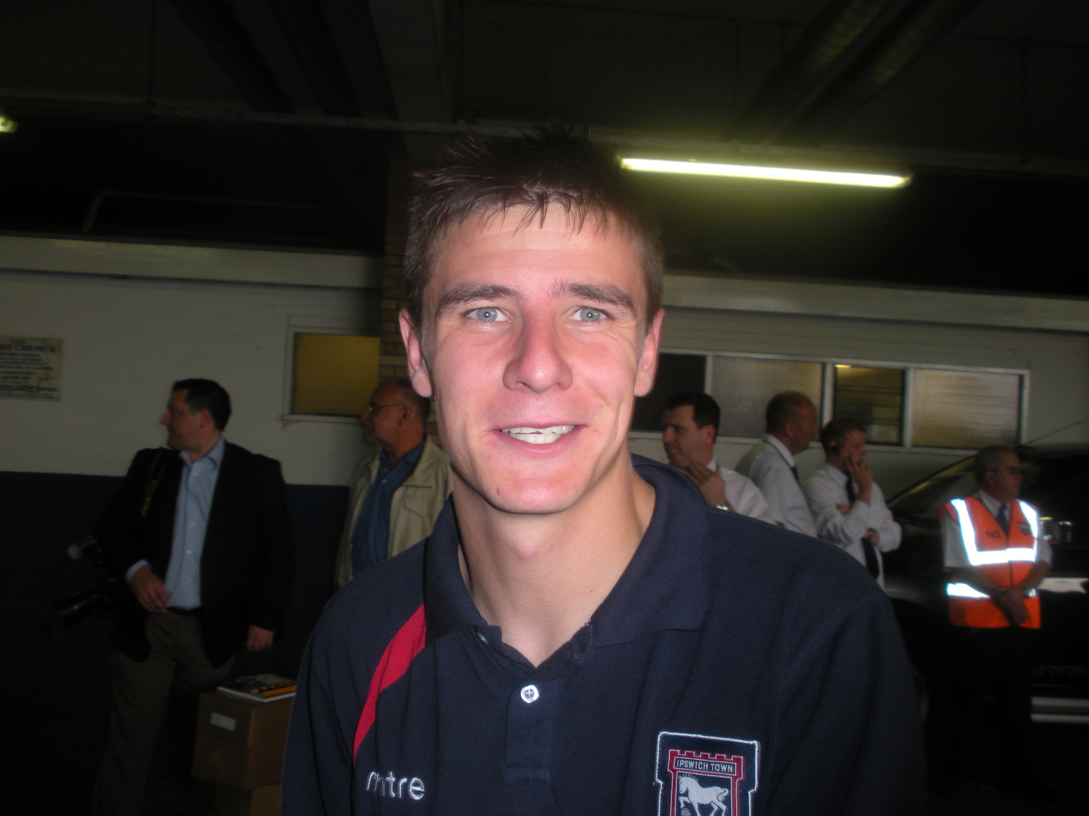 Owen Garvan, Ipswich Town player. Author also gives permission for this file to be used by Simply Blue